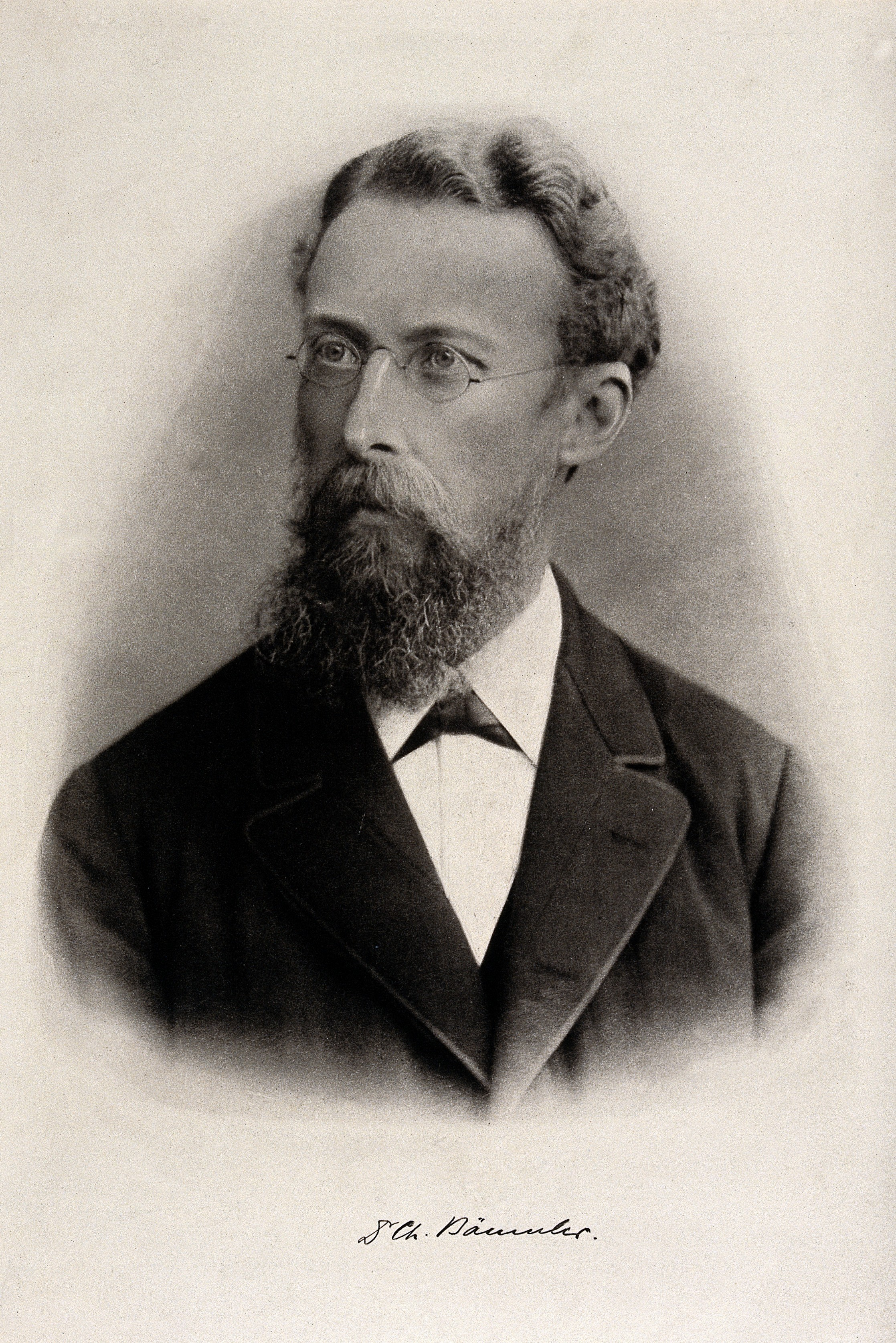 Christian Gerhardt Heinrich Bäumler. Photogravure. Iconographic Collections Keywords: portrait prints